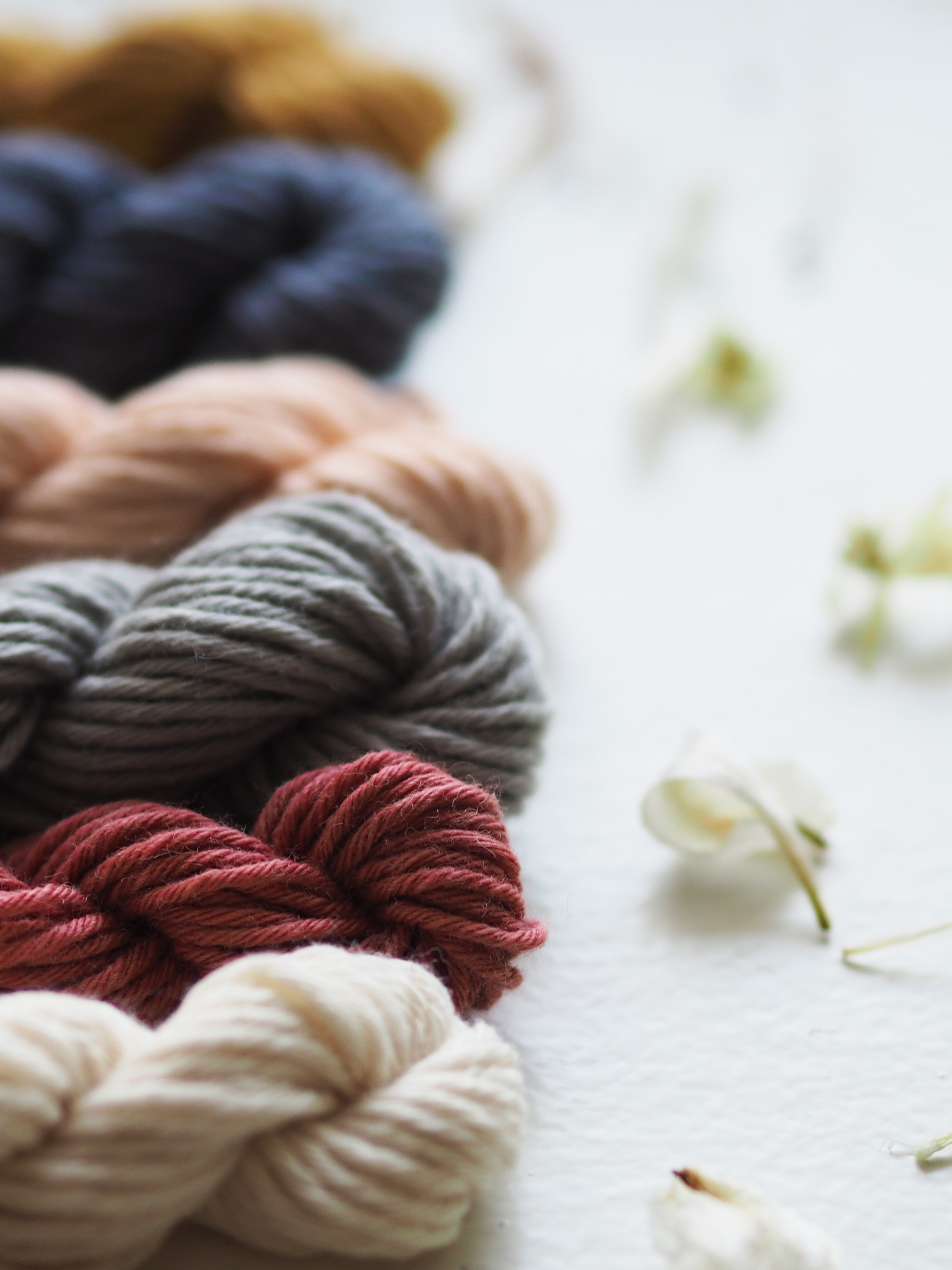 Yarns manufactured by Finnish company Novita.